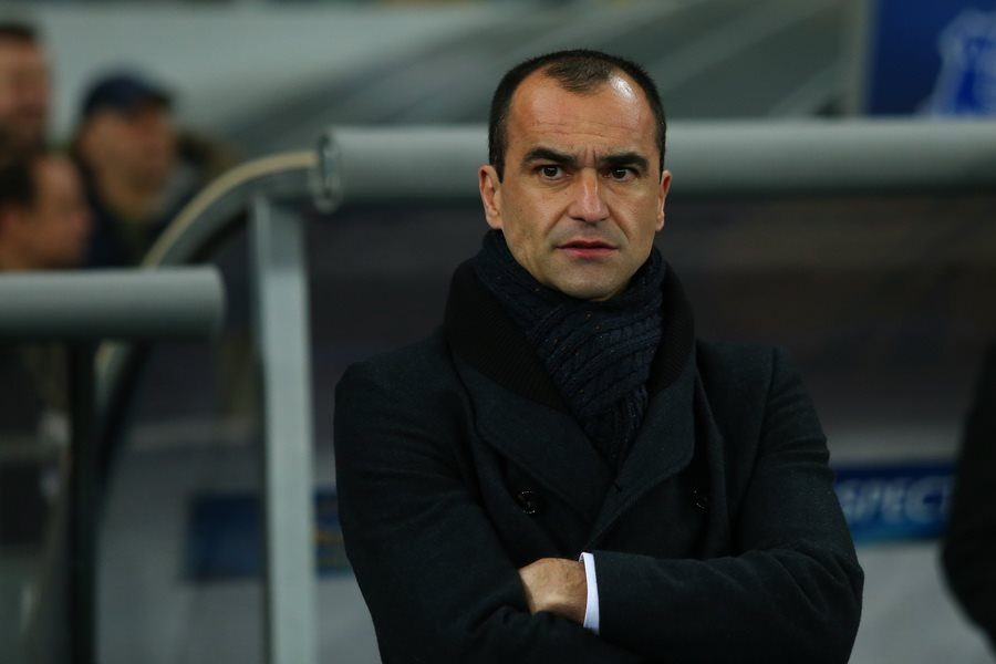 Roberto Martinez as a coach of Everton in Europa League match against Dynamo Kiev on 19 March 2015.